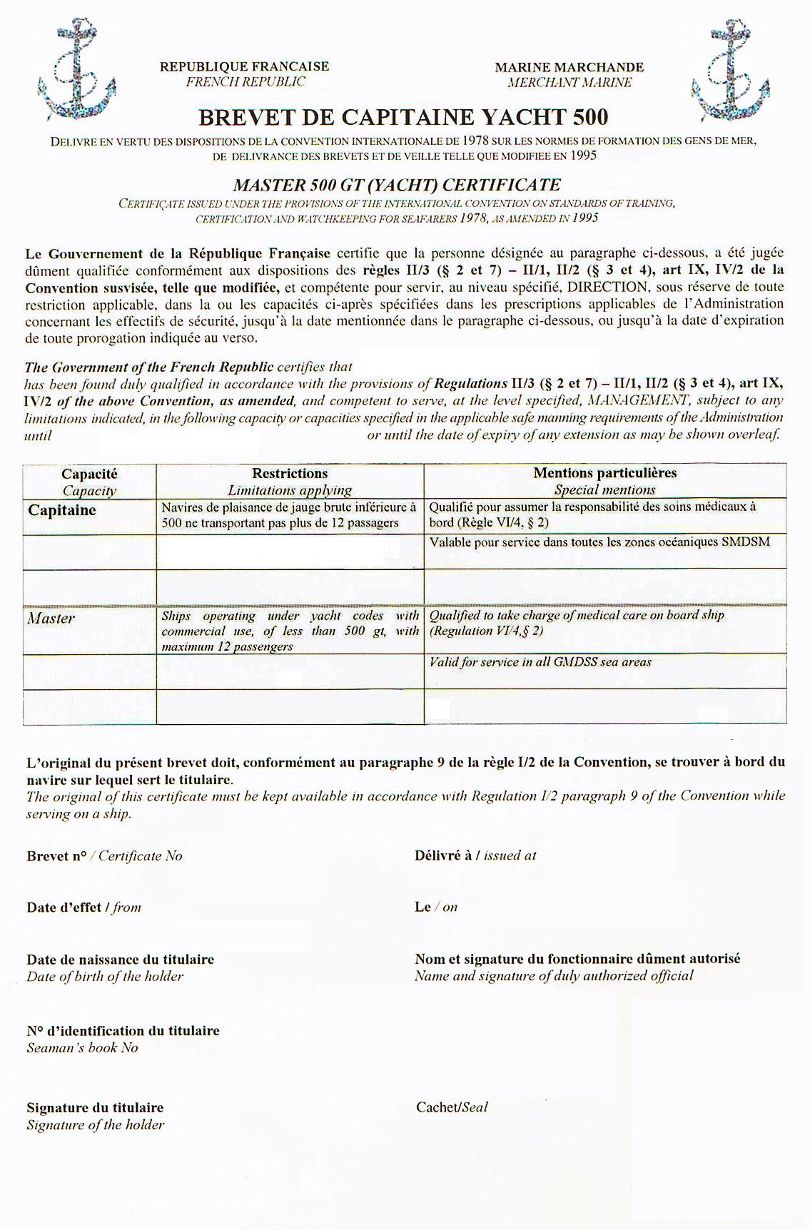 Master's certificate yacht 500, professional title for the conduct(driving) of pleasure boats. Allows against service (performance) the conduct(driving) of yacht of rent with crew (equipage), cruise yacht the demand (request), the yacht of strolls of the passengers, the excursion, the yacht of discovery of the sea of the navigation (browsing) ...